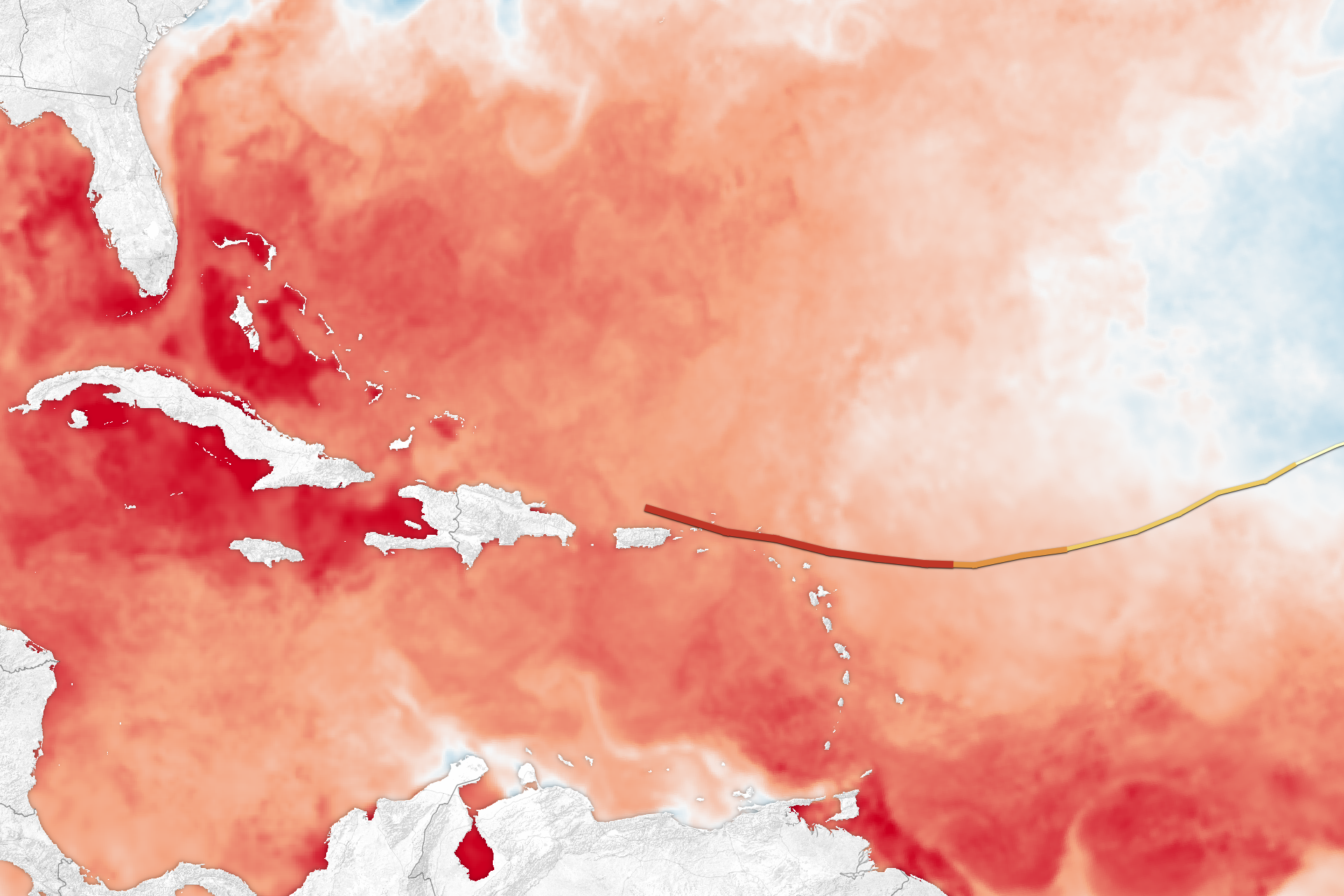 The map above shows sea surface temperatures in the Atlantic Ocean, Caribbean Sea, and Gulf of Mexico on September 5, 2017. The data were compiled by Coral Reef Watch, which blends observations from the Suomi NPP, MTSAT, Meteosat, and GOES satellites and computer models. The mid-point of the color scale is 27.8°C, a threshold that scientists generally believe to be warm enough to fuel a hurricane. The yellow-to-red line on the map represents Irma’s track from September 3–6.